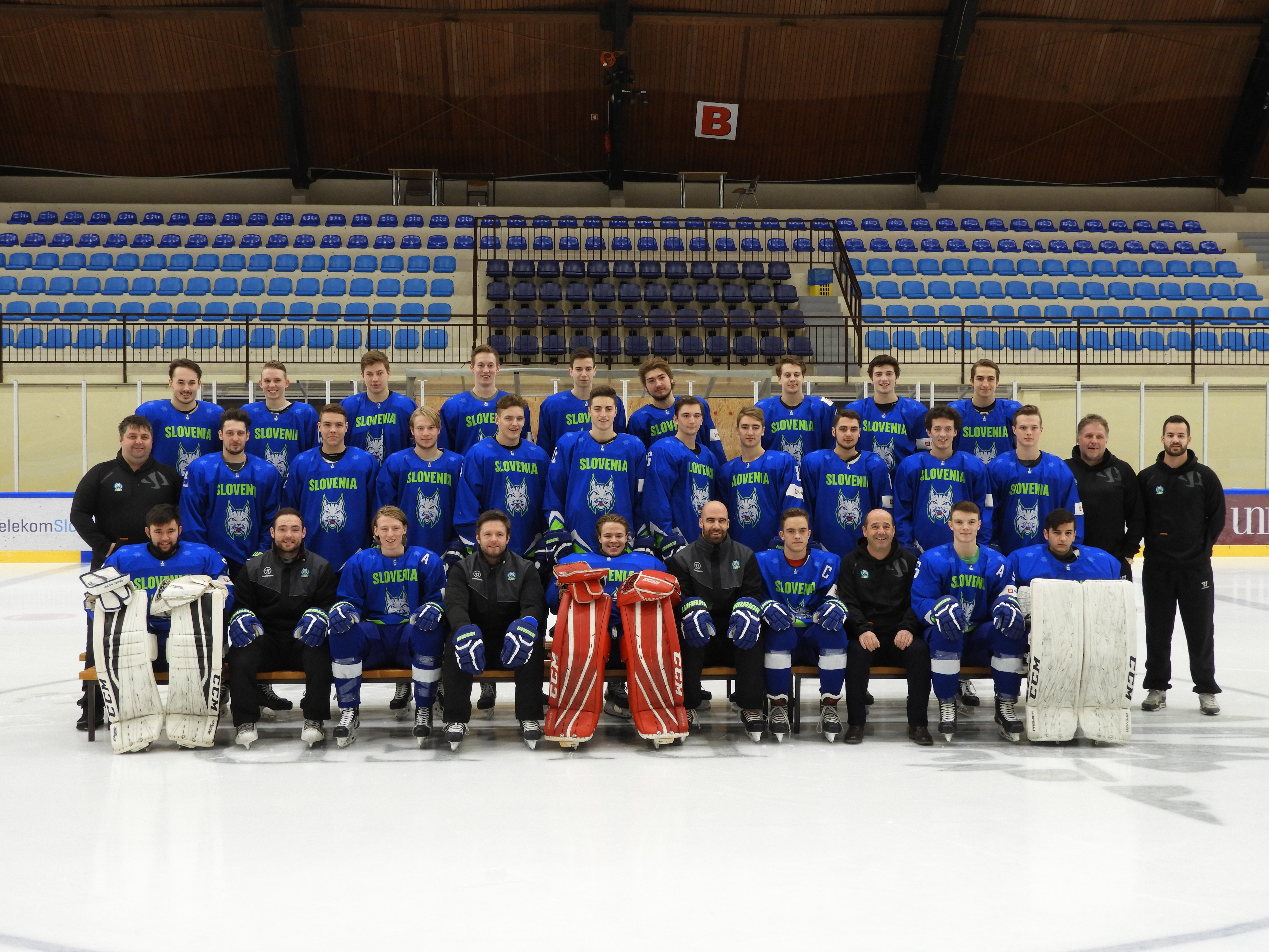 Reprezentanca U20 Slovenija Bled 2017 divizija 1 skupina B. 9.12 - 15.12 Od leve proti desni: From left to right: Zgornja vrsta - zadaj stojijo: Patrik Rajsar napadalec, Nik Brglez napadalec, Tine Klofutar branilec, Gašper Korošec branilec, Erik Svetina napadalec, Rok Kapel napadalec, Maj Tavčar napadalec, Jakob Jugovic branilec, Nejc Brus branilec. Srednja vrsta: Anton Prostor tehnicno osebje, Luka Pretnar napadalec, Lan Brun Rauh branilec, Anej Kujovec napadalec, Matevž Ban napadalec, Jaka Šturm napadalec, Nejc Stojan branilec, Žiga Urukalo branilec, Patrik Tišlar napadalec, Filip Jeram napadalec, Peter Pavc branilec, Andraž Berlisk tehnicno osebje, Janez Nikolič fizioterapevt. Spodnja vrsta - sedijo: Uroš Plavc vratar, Peter Škrabelj, Jan Drozg napadalec (asistent), Dejan Varl pomocnik trenerja, Žiga Kogovšek vratar, Gorazd Rekelj glavni trener, Jaka Sodja napadalec (kapetan), Branko Tošič vodja ekipe, Mark Sever napadalec (asistent),Luka Sotlar vratar.